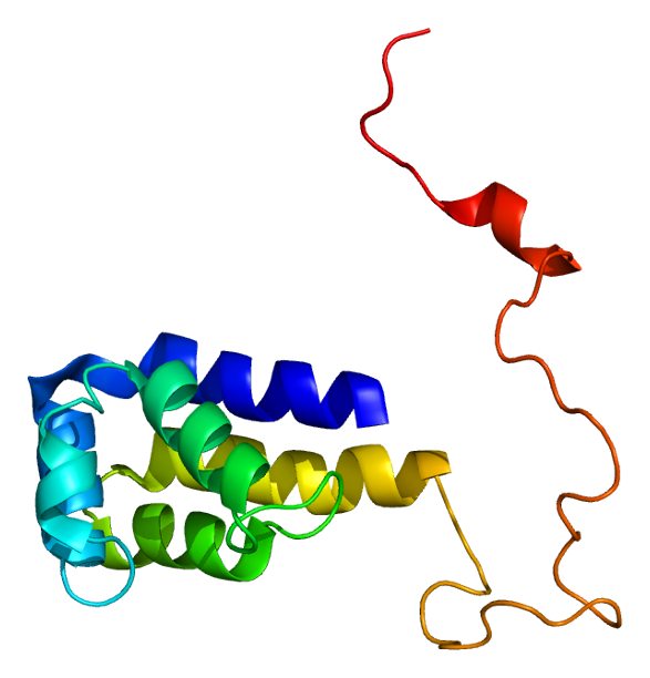 Structure of the PEA15 protein. Based on PyMOL rendering of PDB 1n3k.